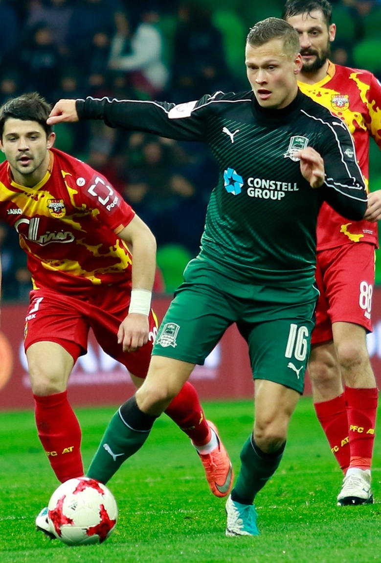 Viktor Claesson with FC Krasnodar in a game against FC Arsenal Tula.